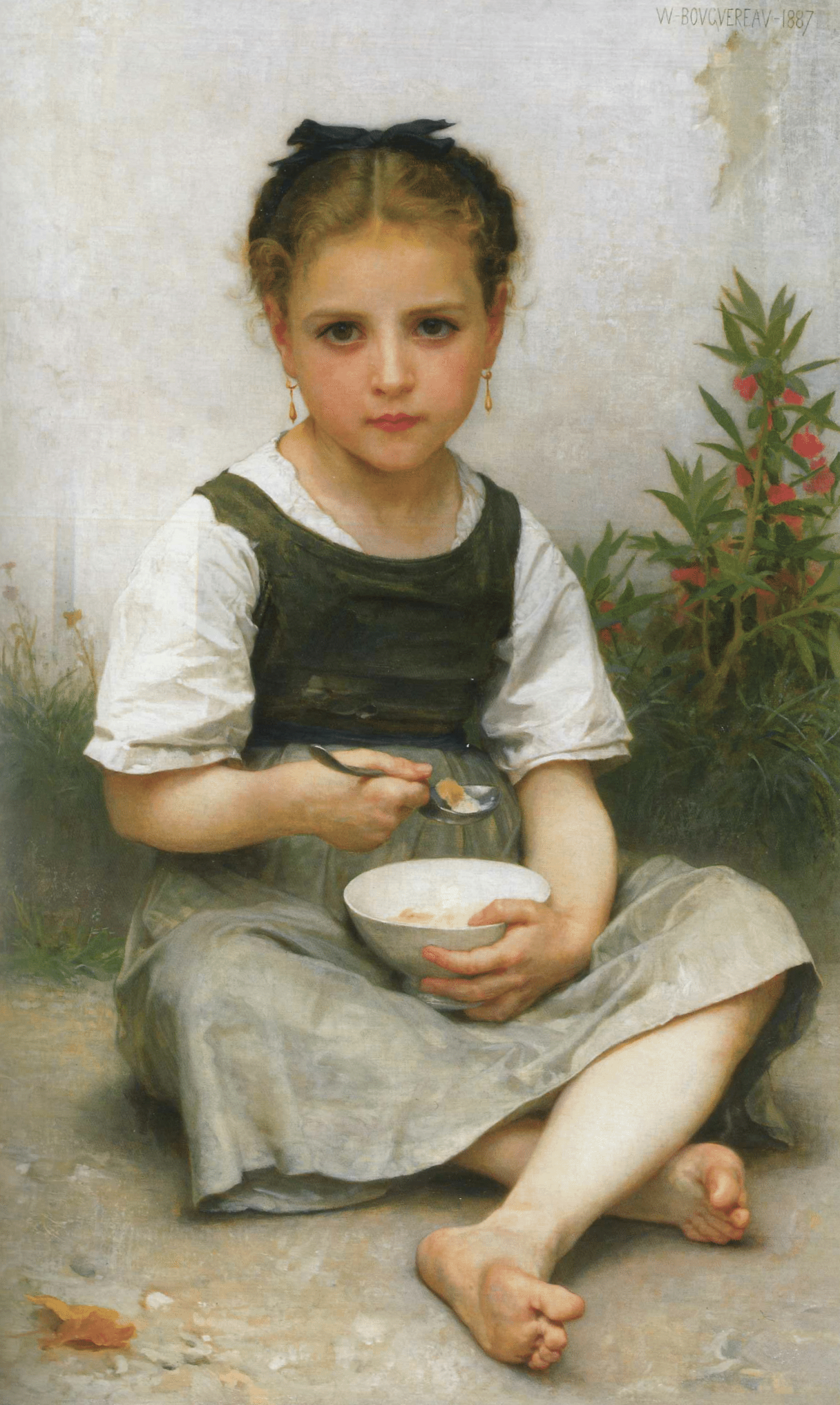 Le déjeuner du matin (french for "breakfast") by William-Adolphe Bouguereau. Catalogue number: 1887/06 Dimensions: 91,5 x 56 cm In 2010 the painting was owned by a private collector.